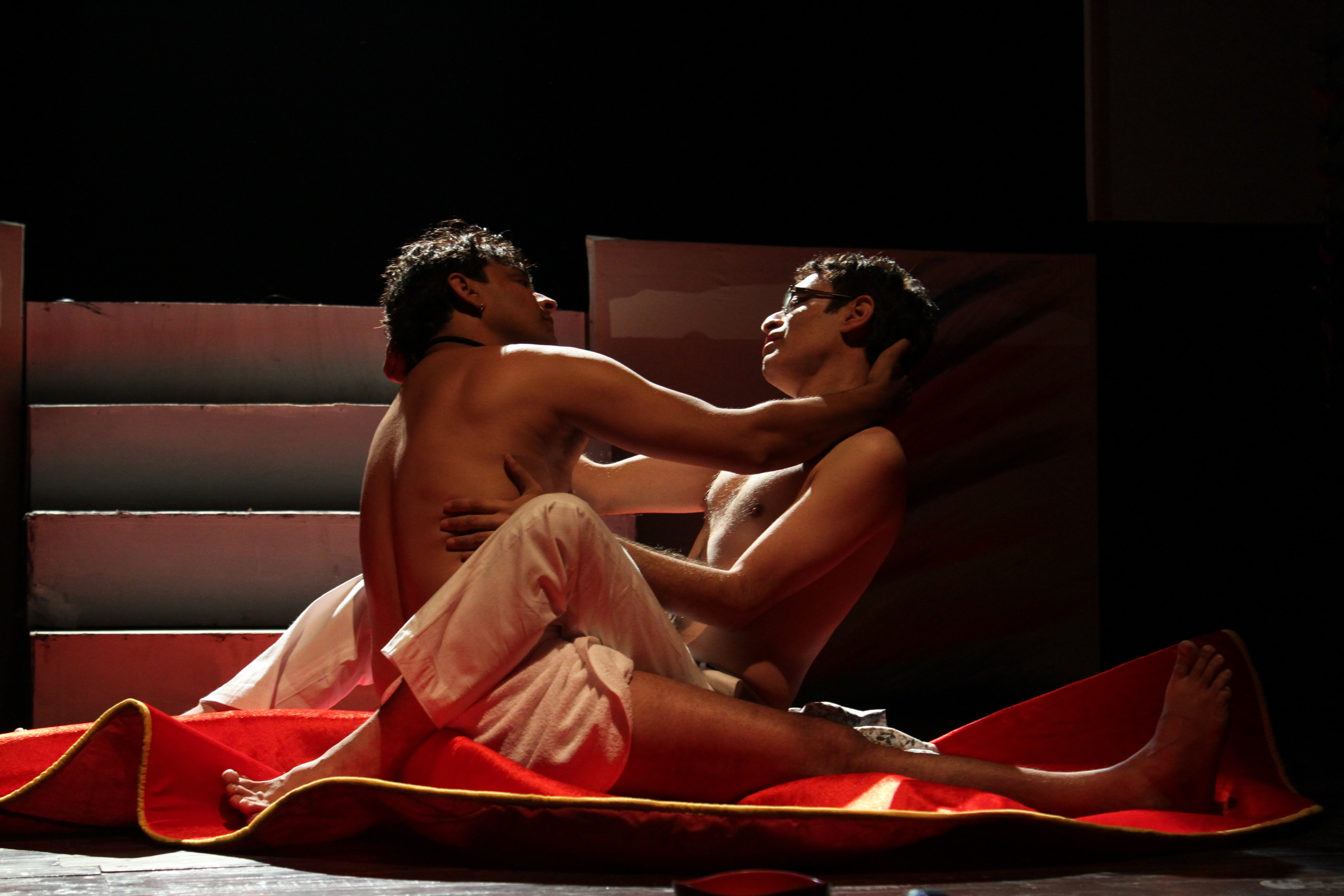 A scene from the play " A straight Proposal" scenic design Muralibasa directed by Happy Ranajit an unicorn actor's studio presentation